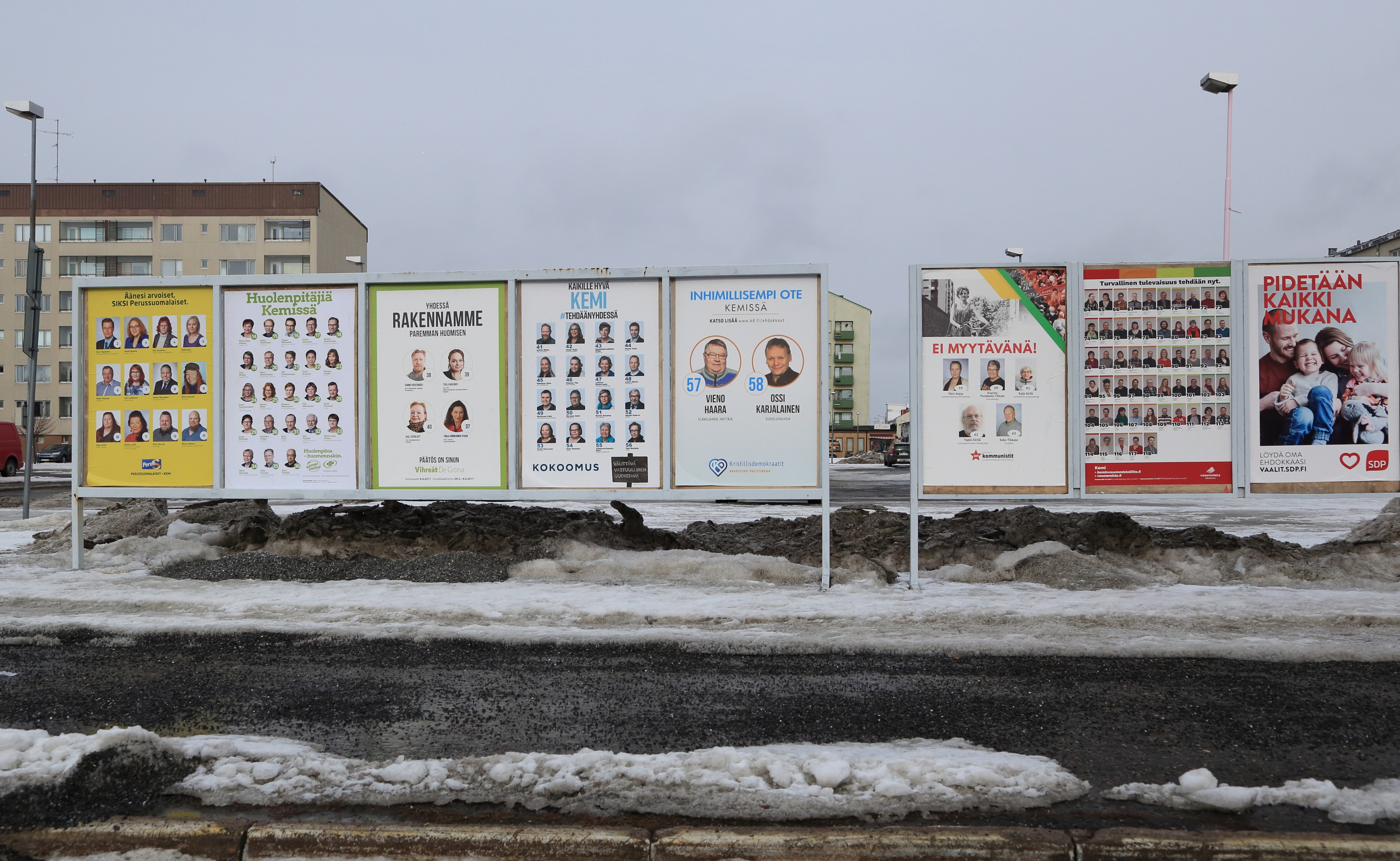 Election posters of the municipal elections at the Kemi market place.